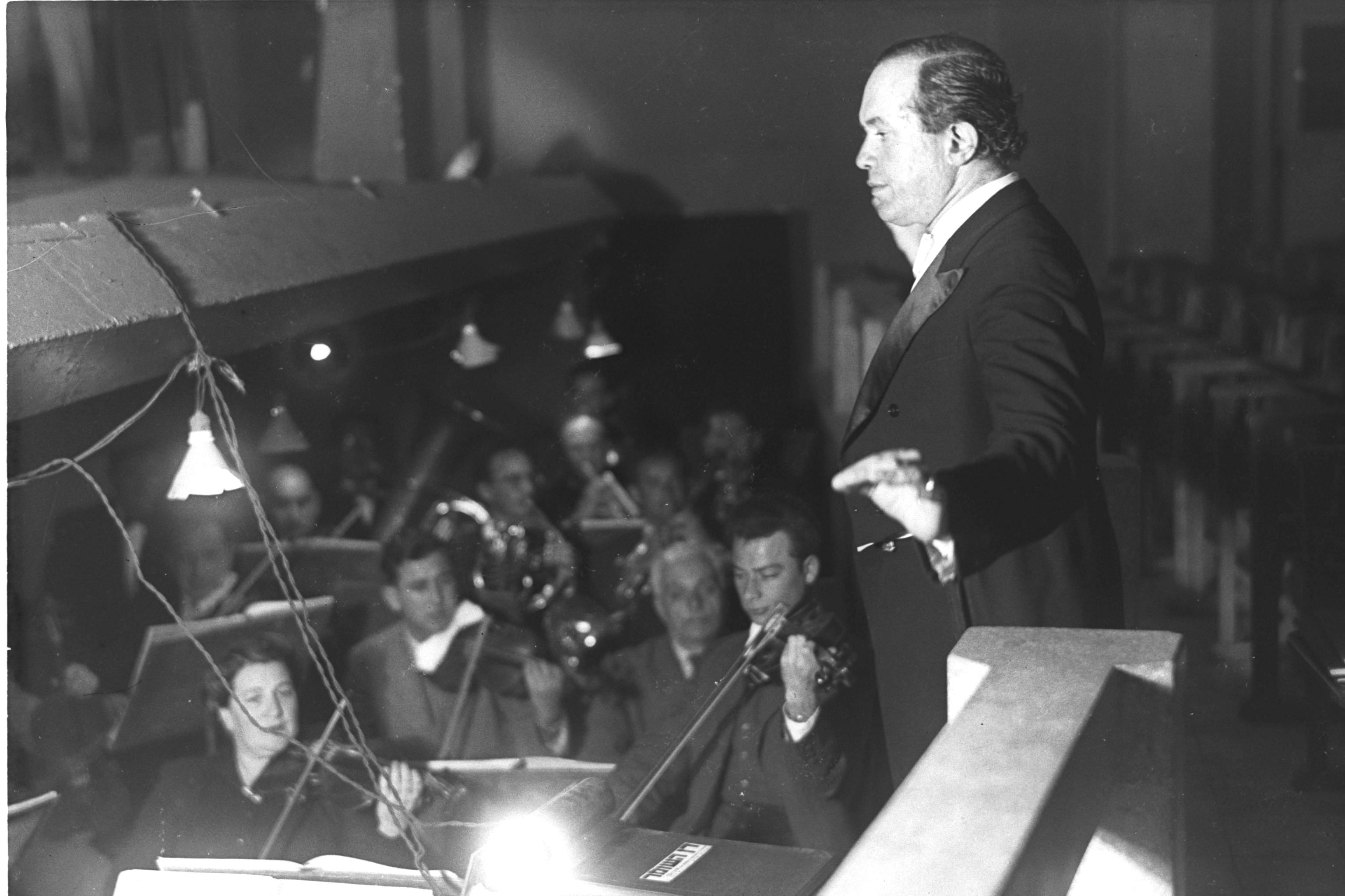 COMPOSER MARC LAVRY CONDUCTING A PERFORMANCE OF THE OPERA "DAN HASHOMER" IN TEL AVIV. האופרה "דן השומר" מוצגת בתל אביב.